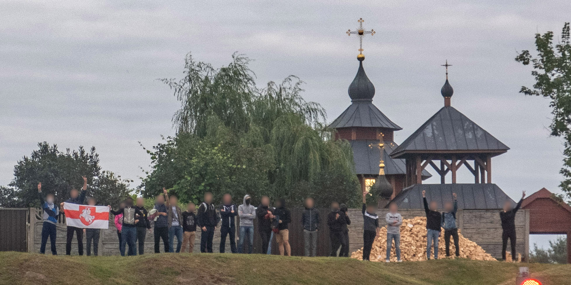 Local spontaneous meeting against repressions and falsifictations. Zavodsky district, Minsk, Belarus